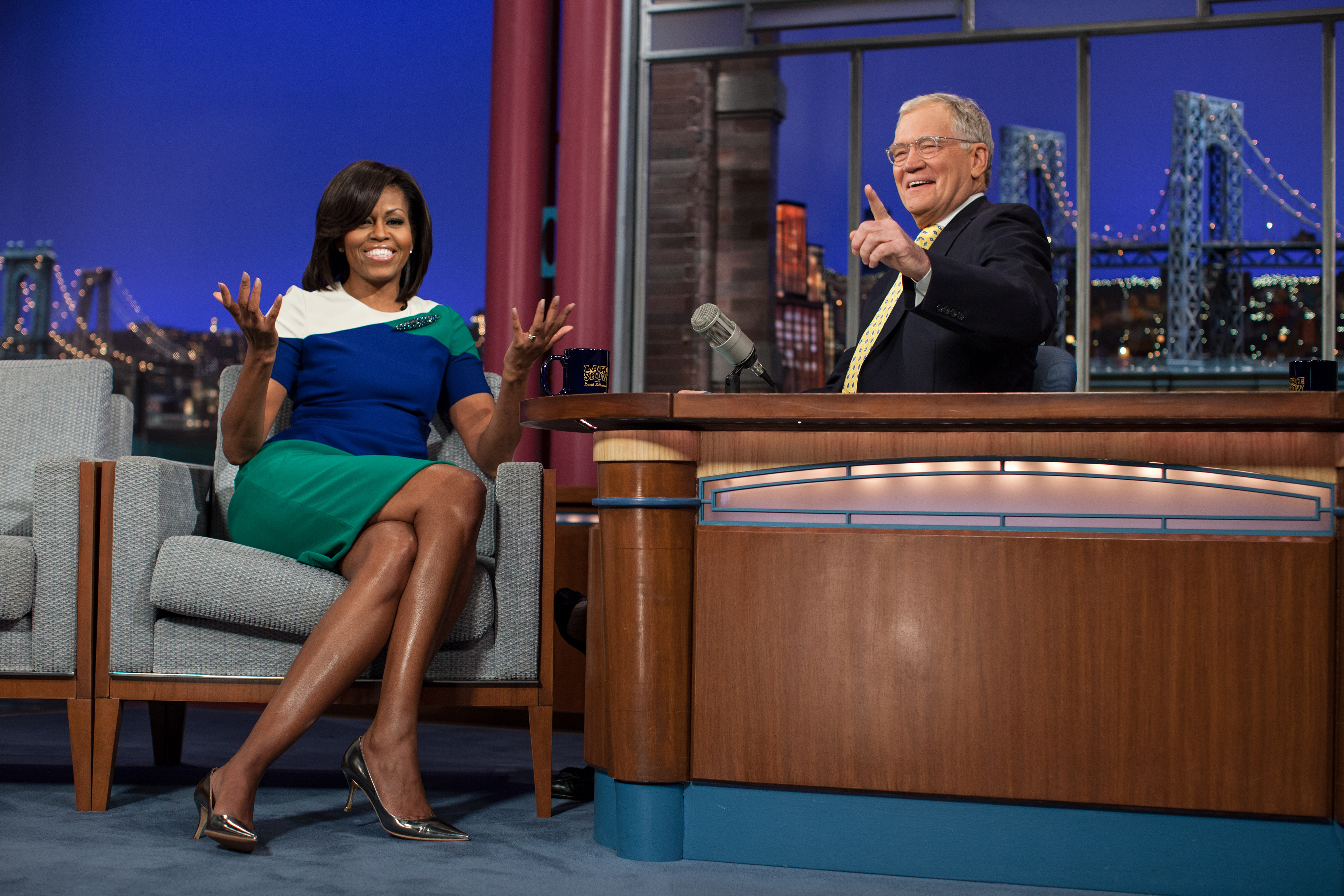 First Lady Michelle Obama is interviewed during a taping of the "Late Show with David Letterman" at the Ed Sullivan Theater in New York, N.Y., March 19, 2012. (Official White House Photo by Chuck Kennedy)